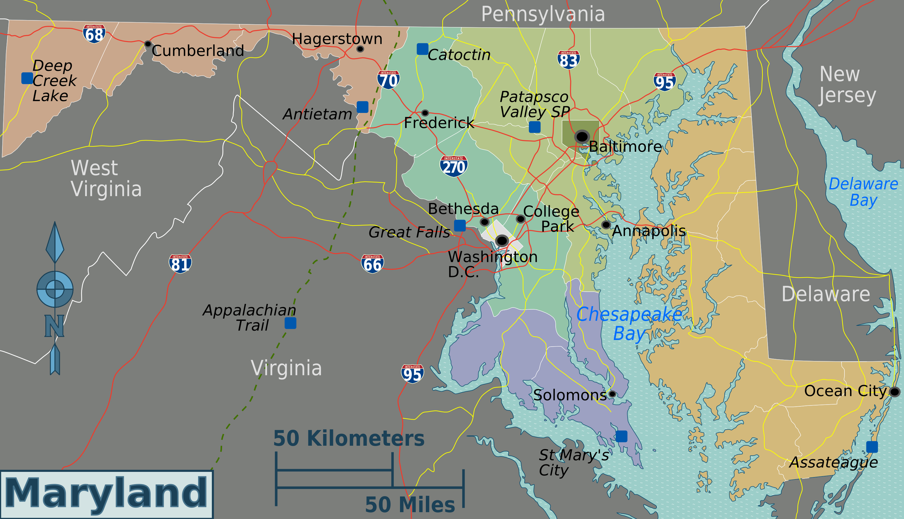 Maryland regions map for use on Wikivoyage, English version